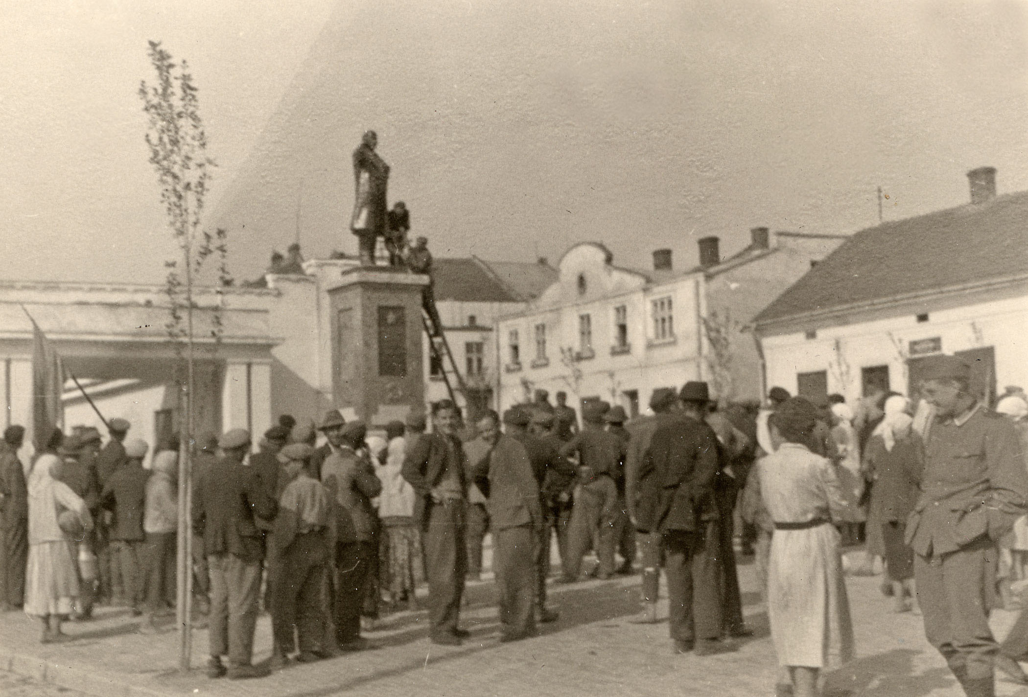 A Lenin statue in Lviv, Ukraine being removed in 1941